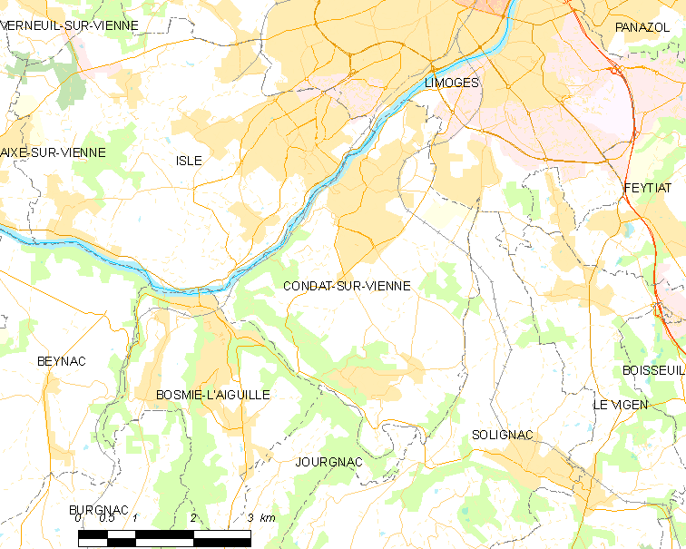 Map of French municipality Condat-sur-Vienne